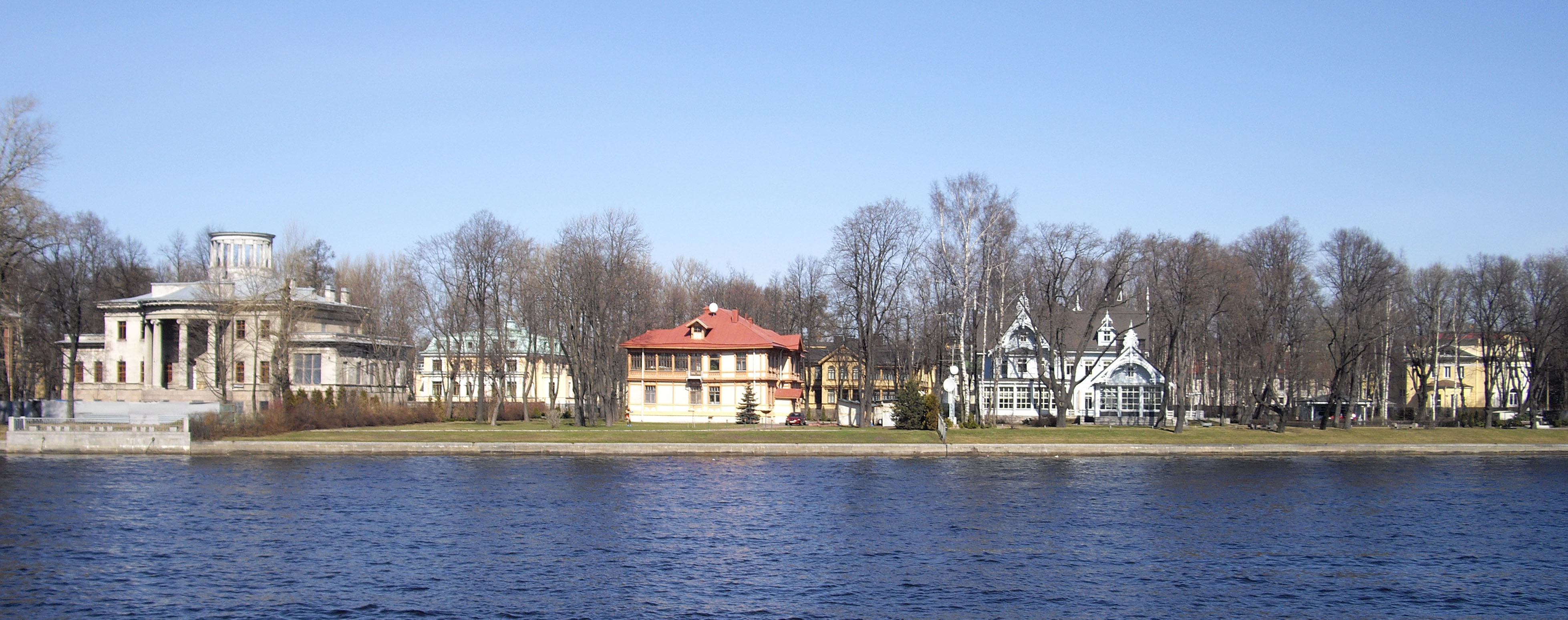 Kamenny Island in Saint Petersburg (Russia). View over the Malaya Nevka.